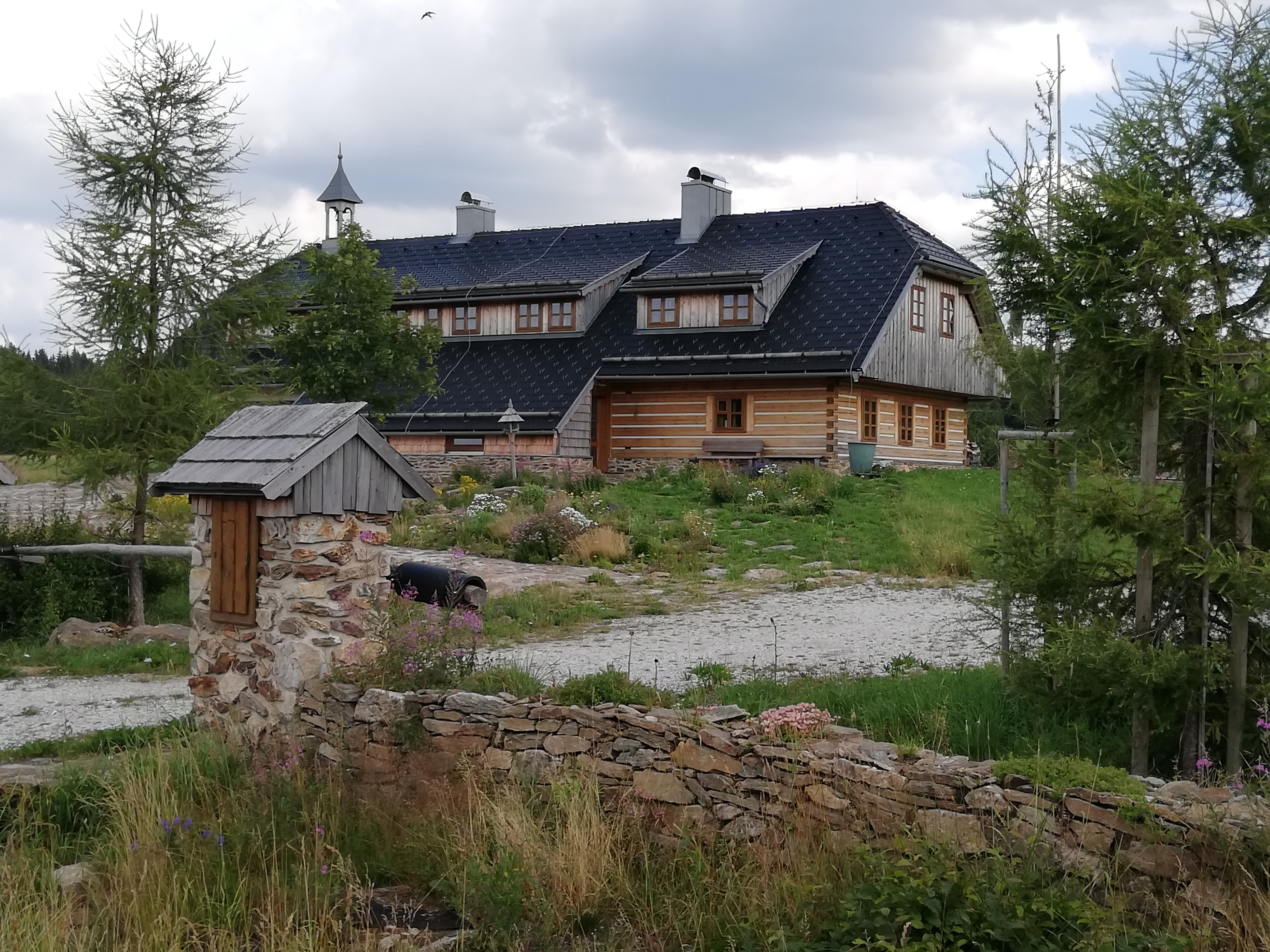 Family house no. 131 in Kvilda (in the part of „Hraběcí Huť“) situated about a few dozen meters in the hill above the place where there once stood a gamekeeper's lodge at „Hraběcí Huť“.